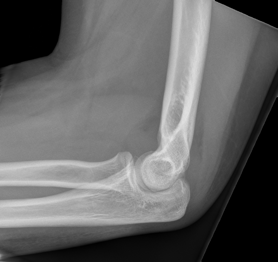 Fat pad sign: Ventral fat pad bowed and dorsal fat pat visible. Non displaced fracture of the radius head.